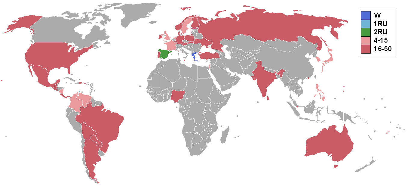 Miss International 1994 results map